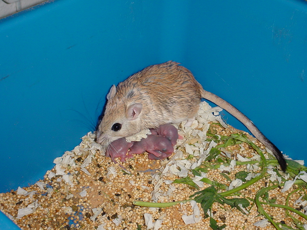 Sundevall's Jird female with pups; Ben-Gurion University (Israel) breeding